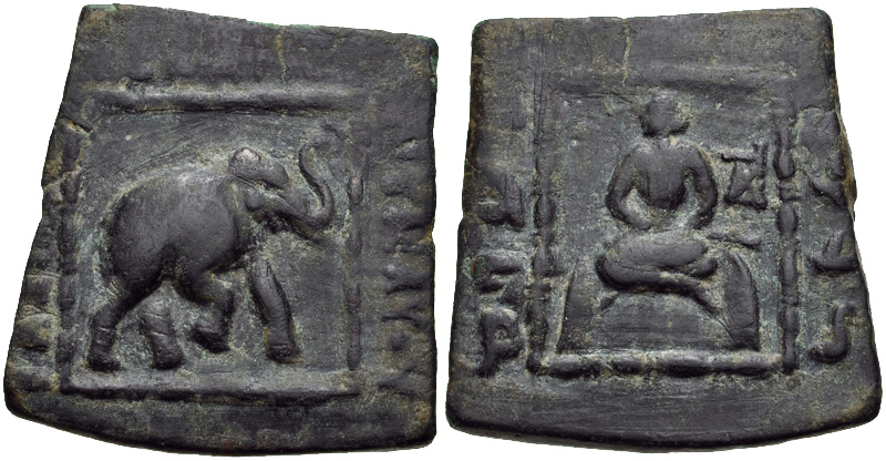 Coin of the Indo-Scythian king Maues